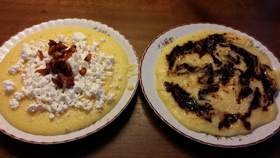 Puliszka (a variant of mamaliga or polenta) from Szabolcs County, Hungary. Left: curd cheese and smoked lard, right: plum jam and powdered sugar.